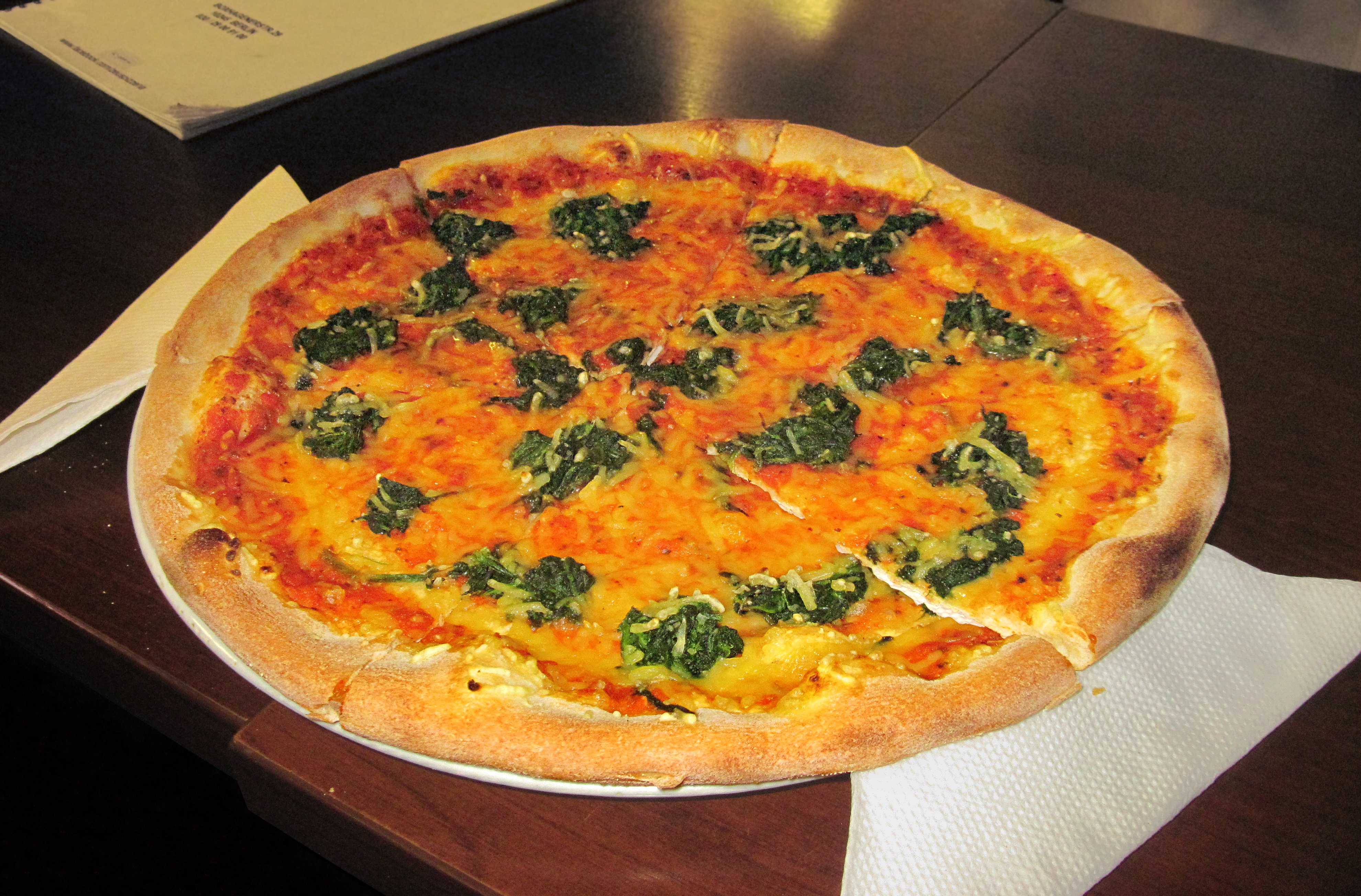 vegan spinach pizza with cheese substitute (Wilmersburger Pizza Shreds, as far as I've heard) from Bistro Zeus in Berlin-Friedrichshain